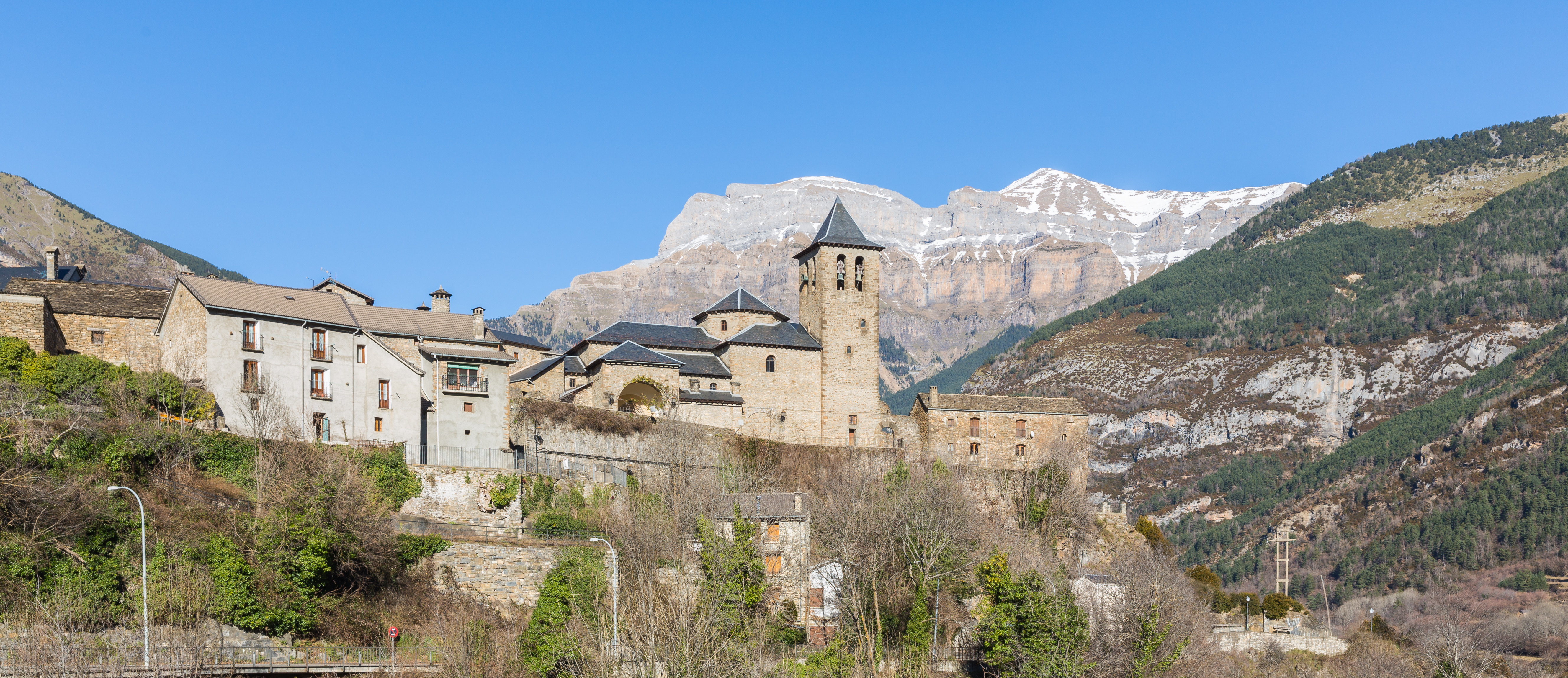 Torla, SCI Ara river, Huesca, Spain.